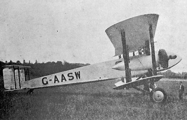 Vickers Vellox photo from Annuaire de L'Aéronautique 1931